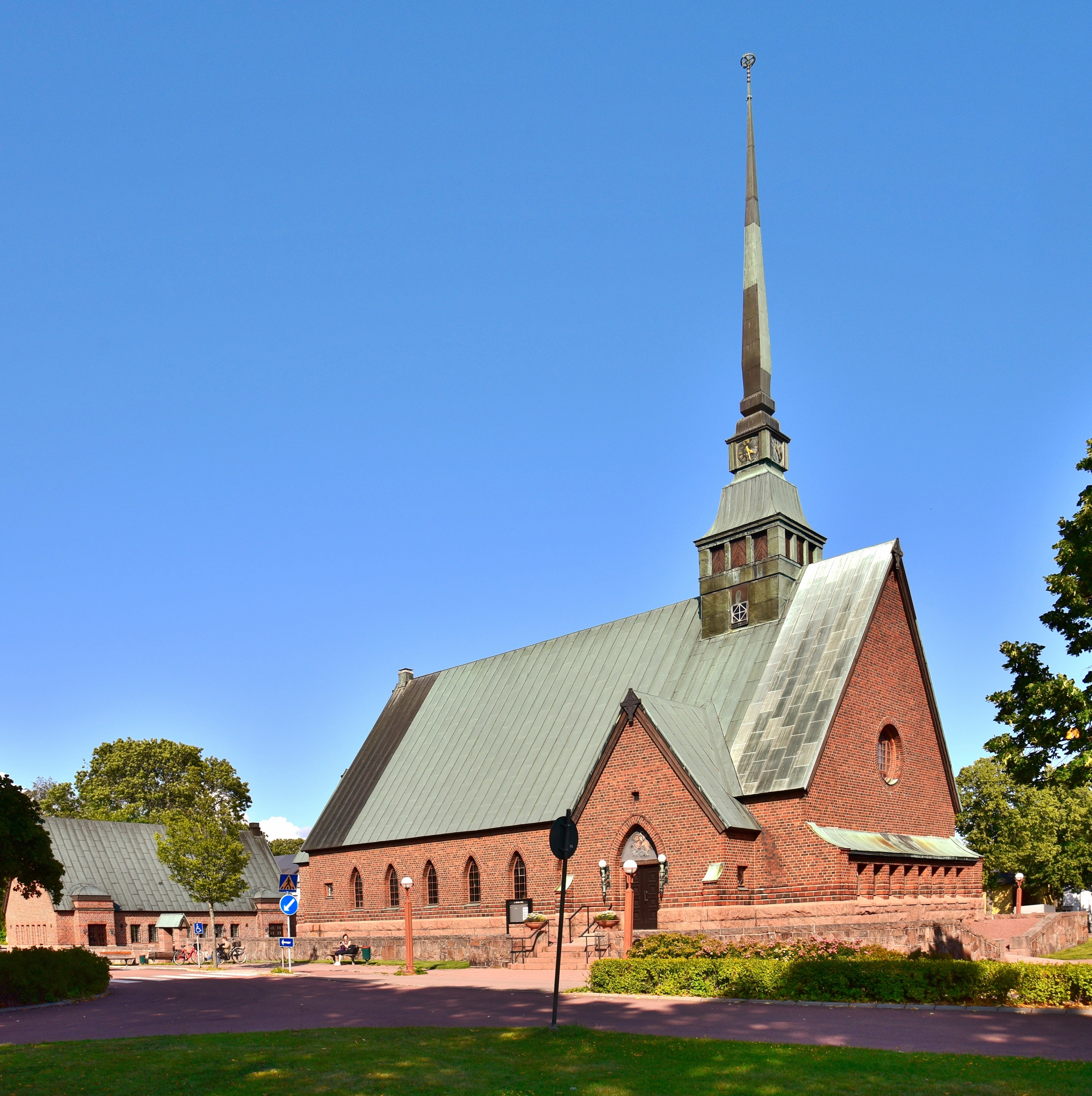 View of the Saint George Church, Mariehamn, Åland Islands, Finland